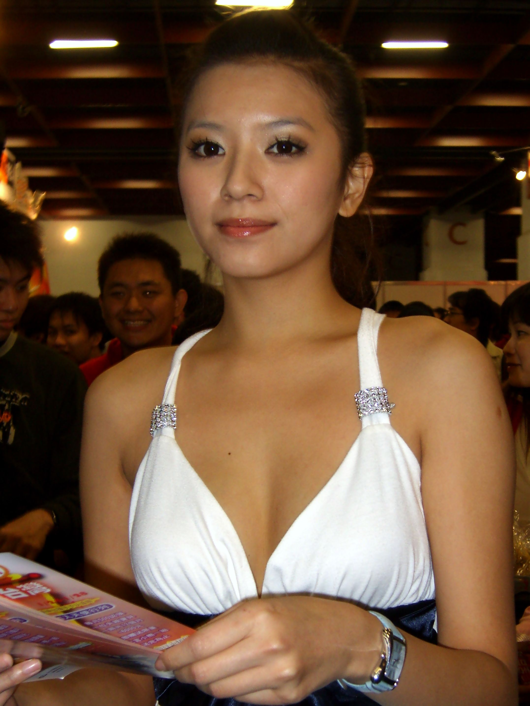 2008 Taipei Game Show: Yuni Li, famous model in Taiwan, at Charity Bidding Pavilion.